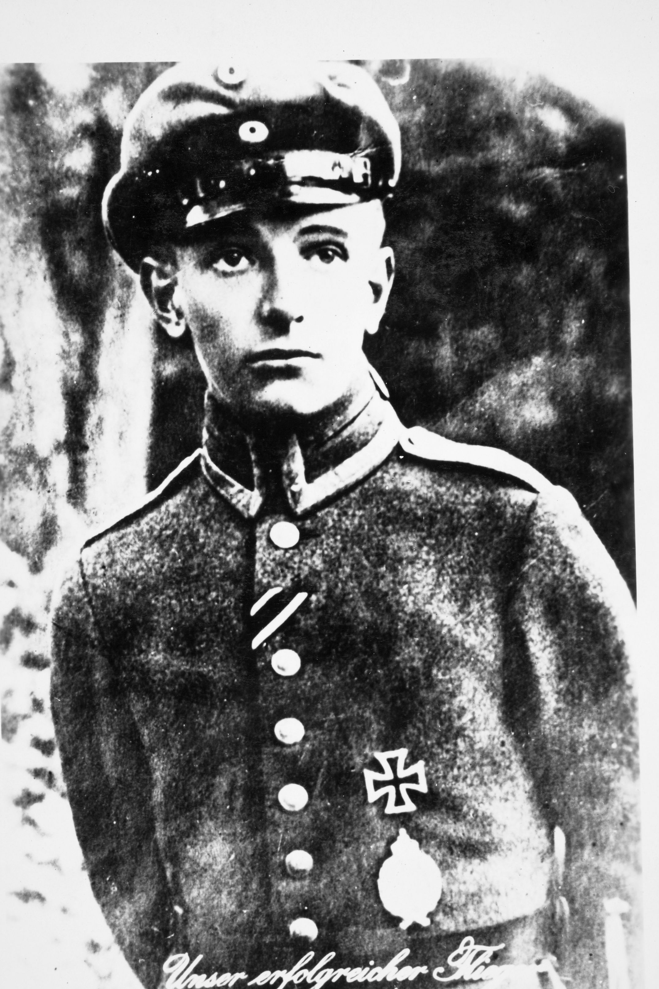 Photo from the Lou Larson Collection. These photos were donated to the Museum in September of 2012. Repository: San Diego Air and Space Museum Archive